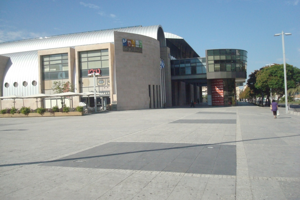 Holon, Education in Israel